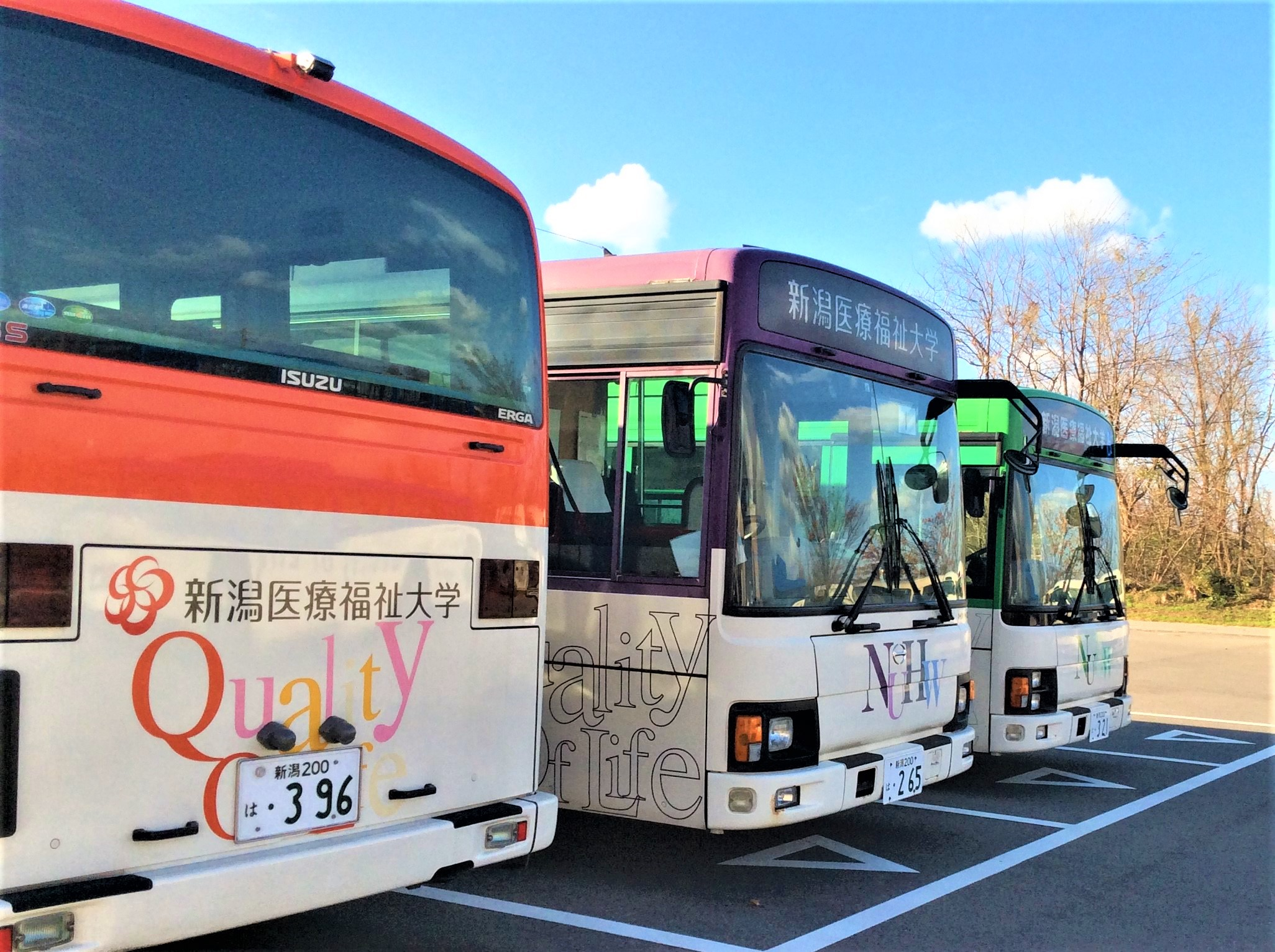 School Buses of Niigata University of Health and Welfare